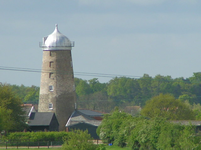 The house converted Burgh Mill, Suffolk